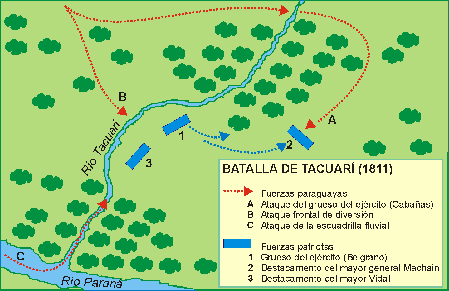 Battle of Tacuarí (1811). Patriot Army (general belgrano) vs Royalist Army of Paraguay (general Cabañas). Defeat of Belgrano.